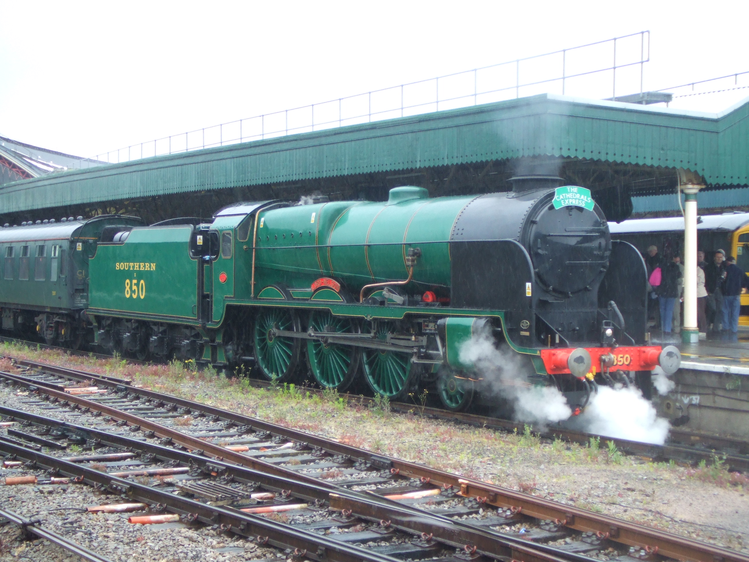 SR Maunsell "LN" 4-6-0 No.850 Lord Nelson in what appears to be 1938 Bulleid livery of Malachite Green with black & yellow lining at Bristol Temple Meads on the Cathedrals Express from Victoria, 4/07. However, Bullied liveries had the number on the cab side not the tender (that was Maunsell's pattern) and the lettering is in Maunsell not Bulleid style. Moreover, the 1938 standard livery had the smoke deflectors in green, not black, and the cylinders were black not green. Possibly, Lord Nelson is finished in one of the experimental/trial liveries Maunsell and Bulleid tried in the 1937 transition period when Bulleid was appointed CME in May yet Maunsell did not retire until October. It could be the "light olive" livery, though looks too bright to be that.